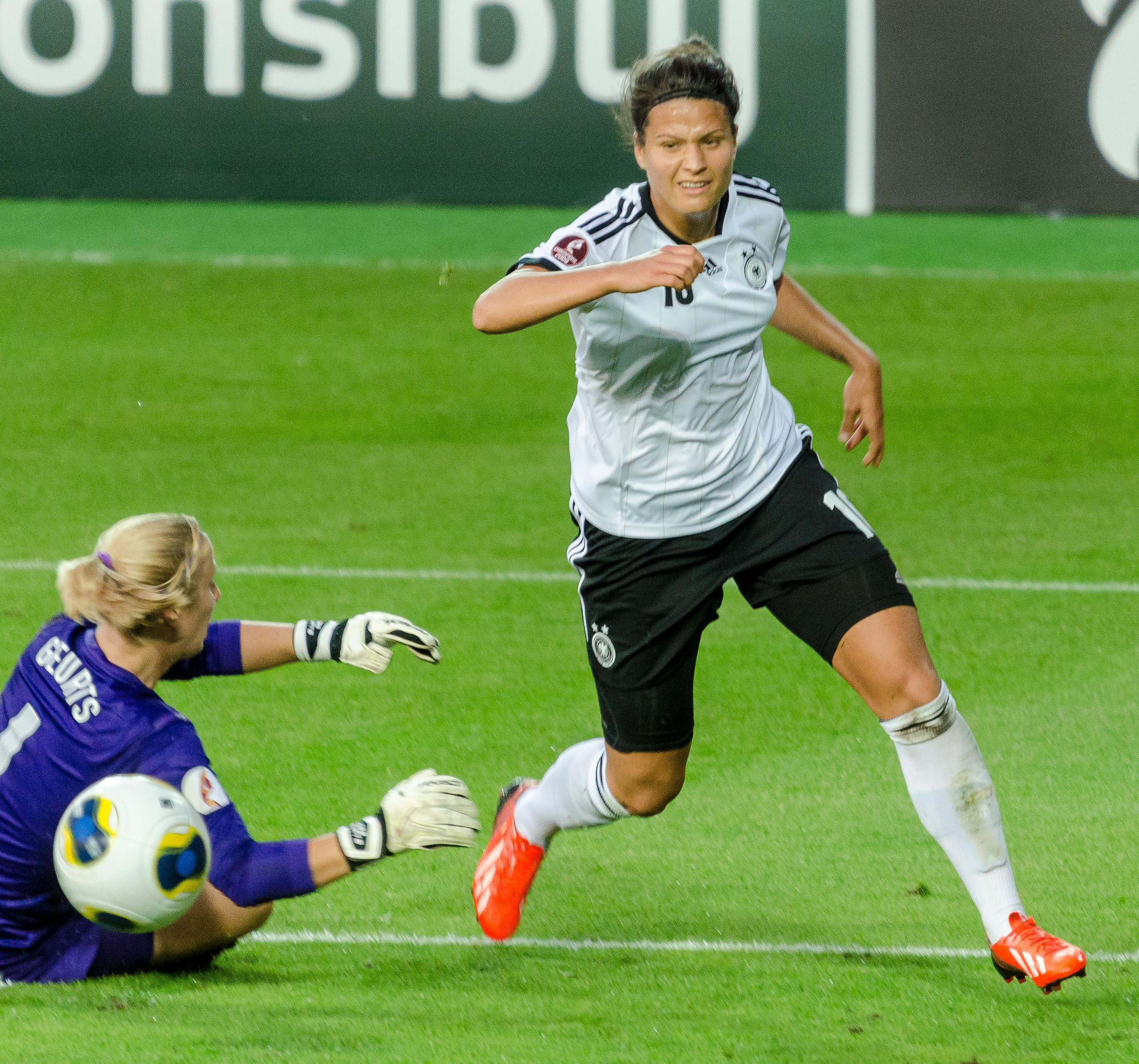 German midfielder Dzsenifer Marozsán playing in the German Women's National Team's first game of UEFA Women's Euro 2013,0-0 against the Netherlands in Växjö.